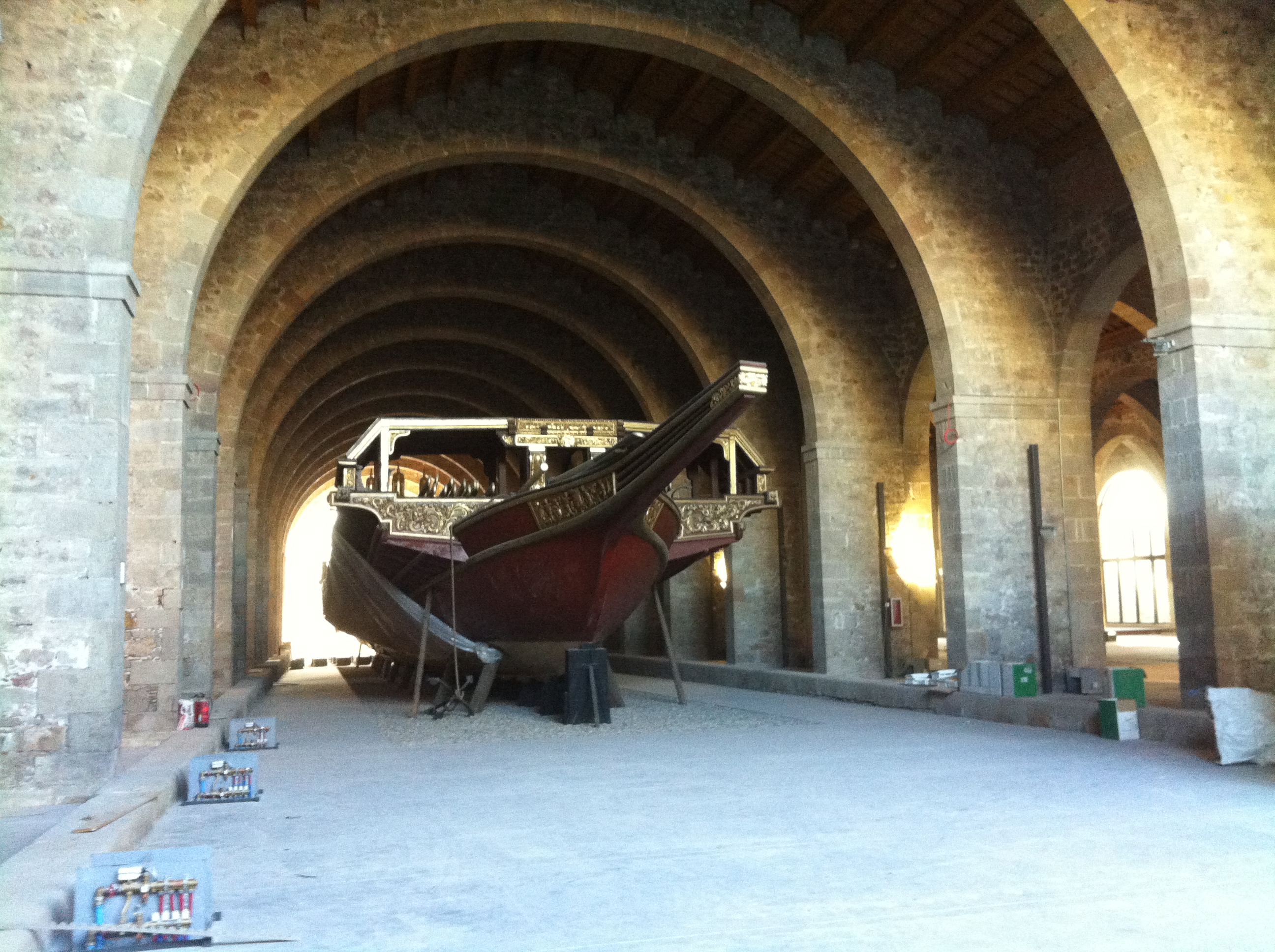 Pics of the Final Restoration Works at Drassanes Reials de Barcelona, one month before its re-opening